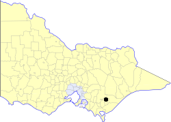 Location of the City of Traralgon within Victoria.